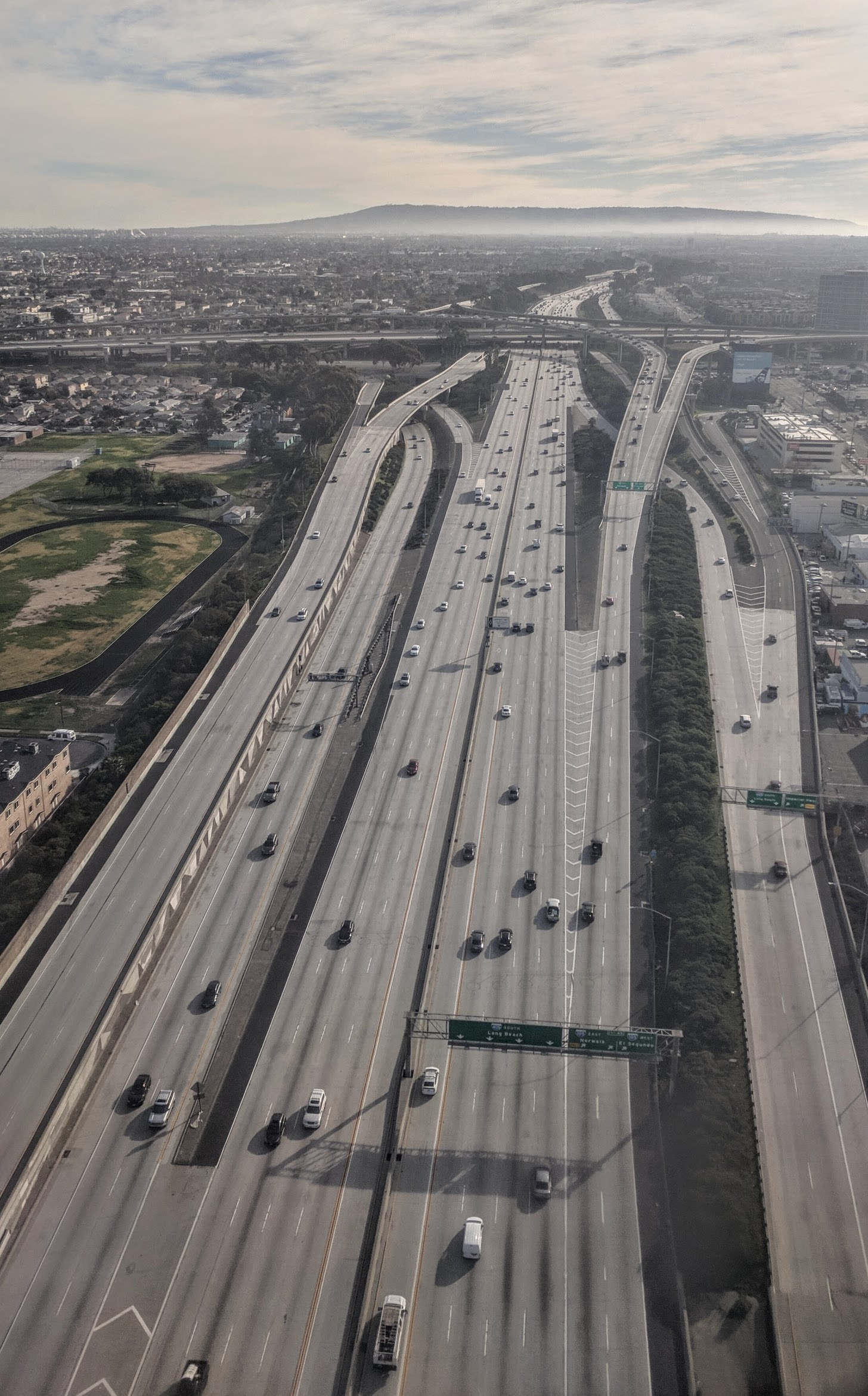 Aerial view from the north of Interstate 405's interchange with Interstate 105 near Los Angeles International Airport